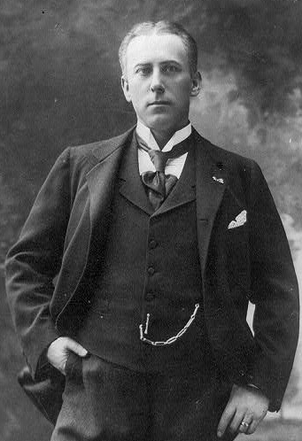 German opera singer Max Alvary (1856-1898)